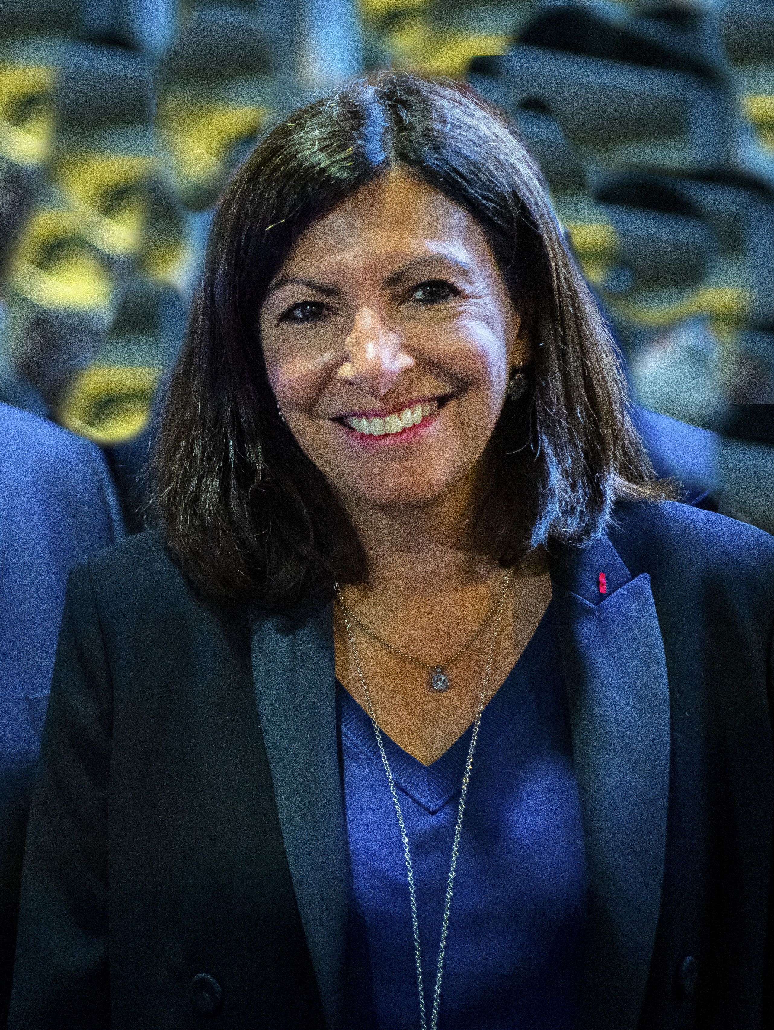 Pécresse - Ollier - Hidalgo